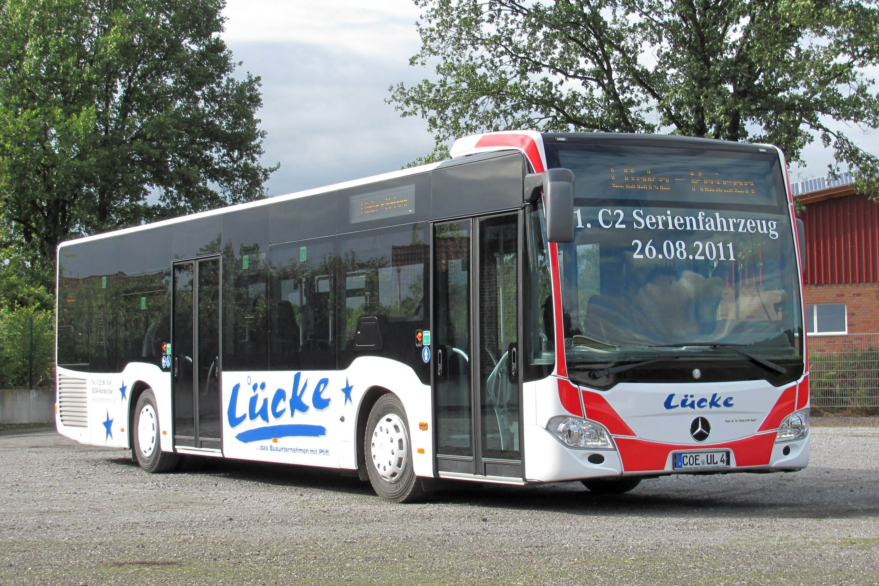 new generation Mercedes-Benz Citaro "C2"